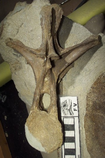 Dorsal vertebra of Europasaurus holgeri.